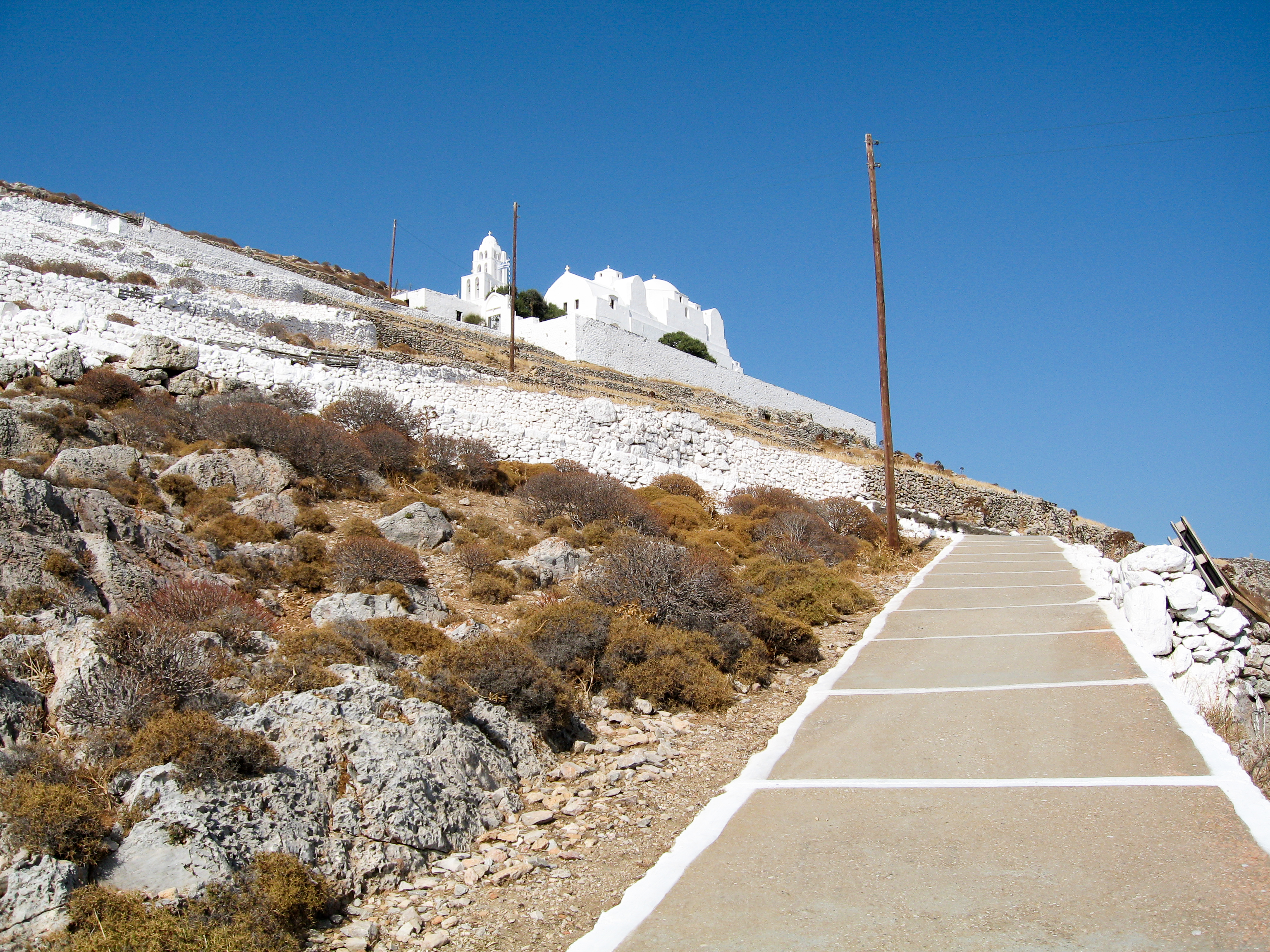 Folegandros Island, Greece